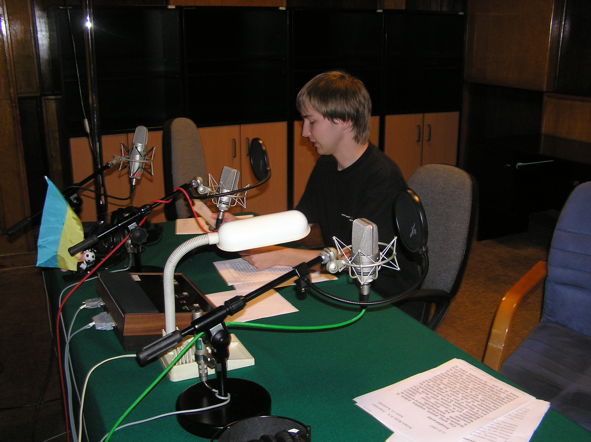 Redactor of the broadcast of the Polish Radio (Polskie Radio) in Esperanto, Łukasz ŻEBROWSKI, in the Warsaw studio.